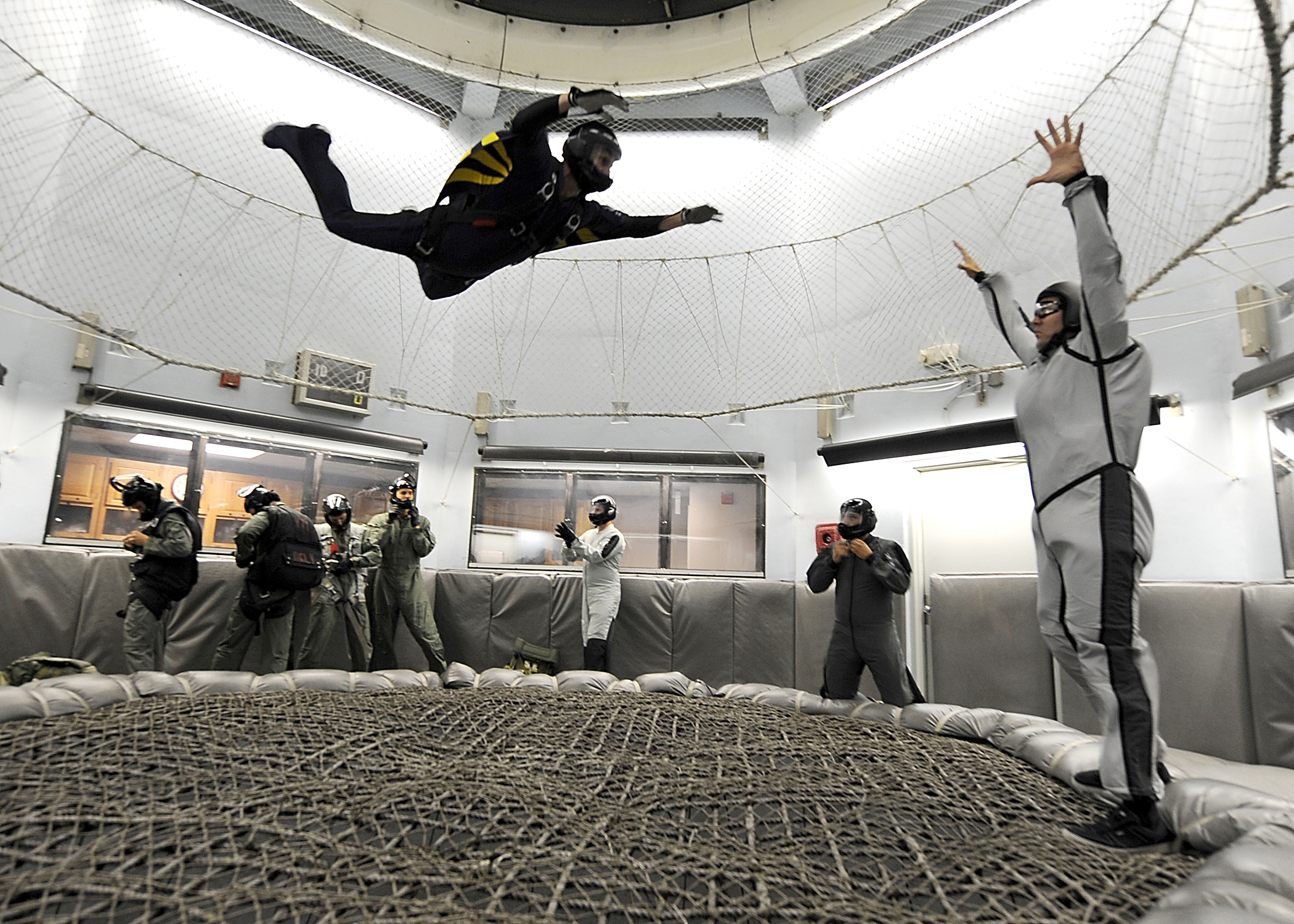 FORT BRAGG, N.C. (June 7, 2009) Military freefall instructors from Special Boat Team (SBT) 20 demonstrate body positions during freefall training at the Matos Military Freefall Training Facility at Fort Bragg, N.C. SBT-20 is conducting this training for junior personnel as a precursor for military freefall school. (U.S. Navy Photo by Mass Communication Specialist 2nd Class Gary L. Johnson III/Released)